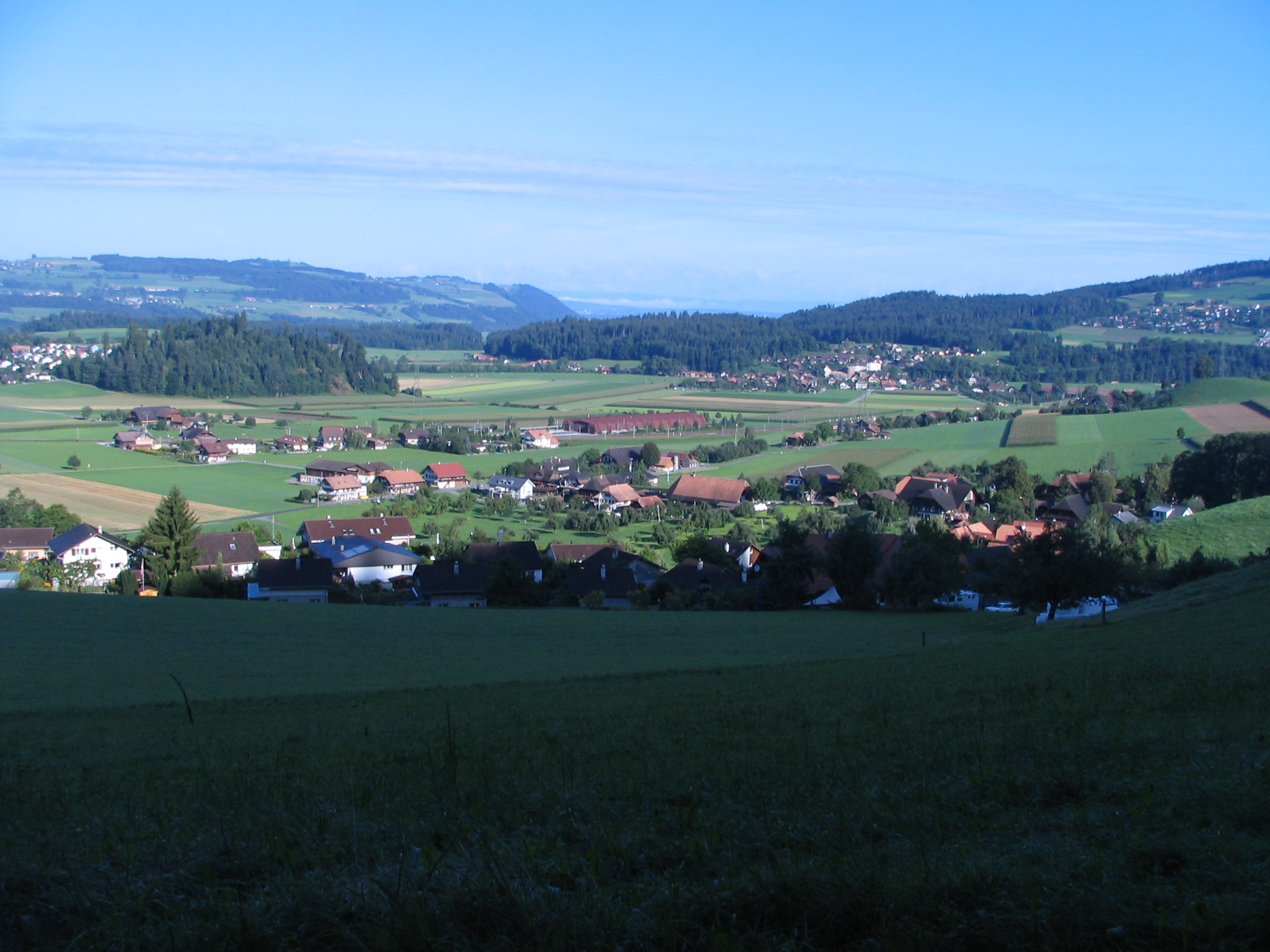 Brenzikofen, Village in the Canton of Berne, Switzerland